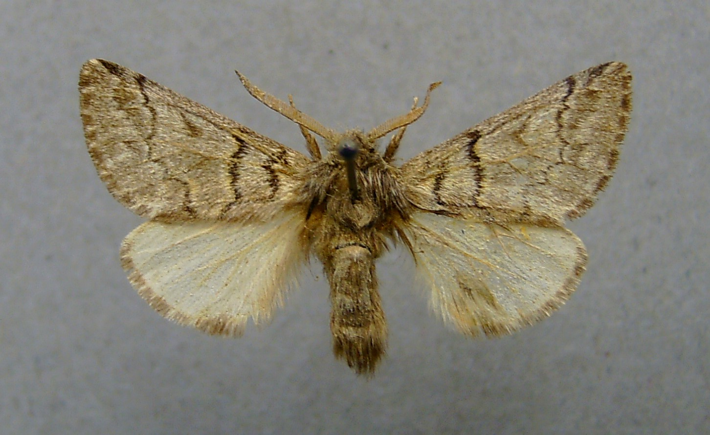 Traumatocampa pinivora